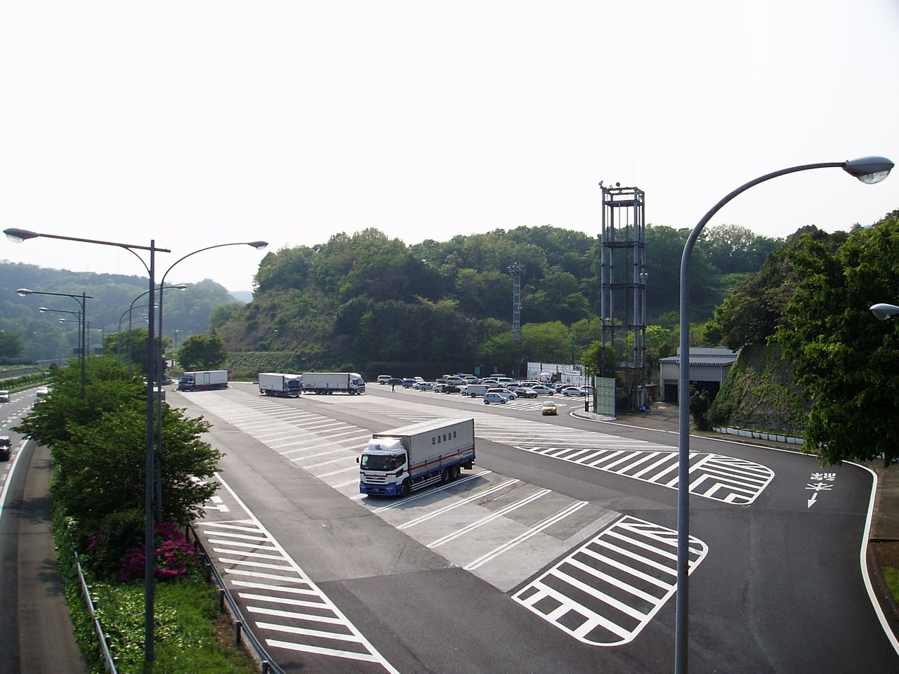 Tomei Expway Nakai Perking Area (for Tokyo)